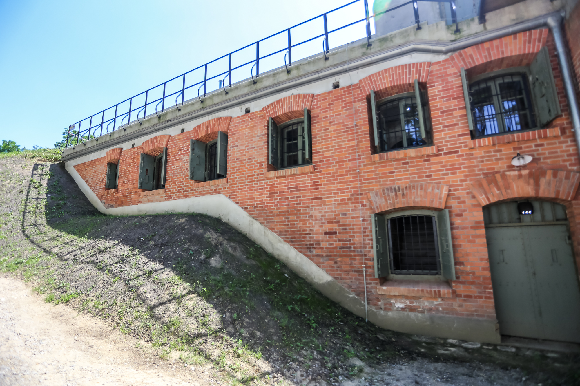 Fort Jugowice ("Łapianka") w trakcie modernizacji